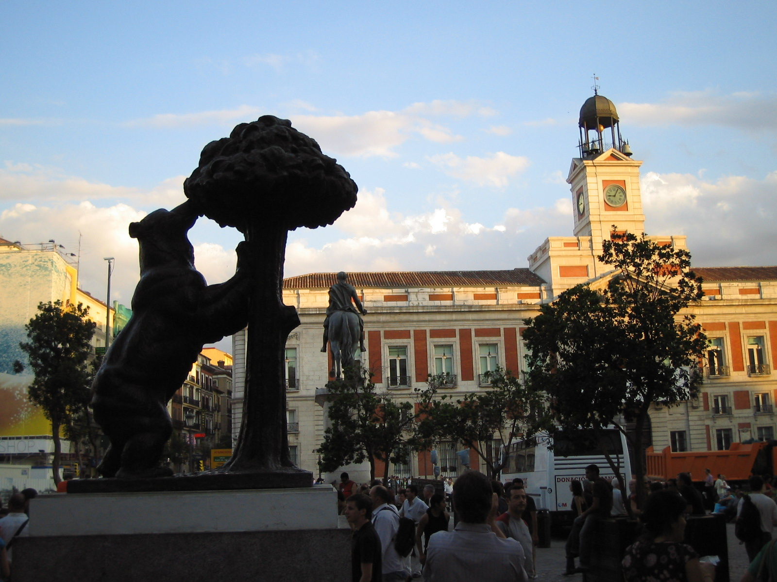 Taken by Rifleman 82 on 310506. Bear and the Madrono Tree, heraldic symbol of Madrid. Sculpture at Puerta del Sol, Madrid